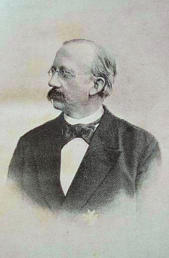 Max von dem Borne